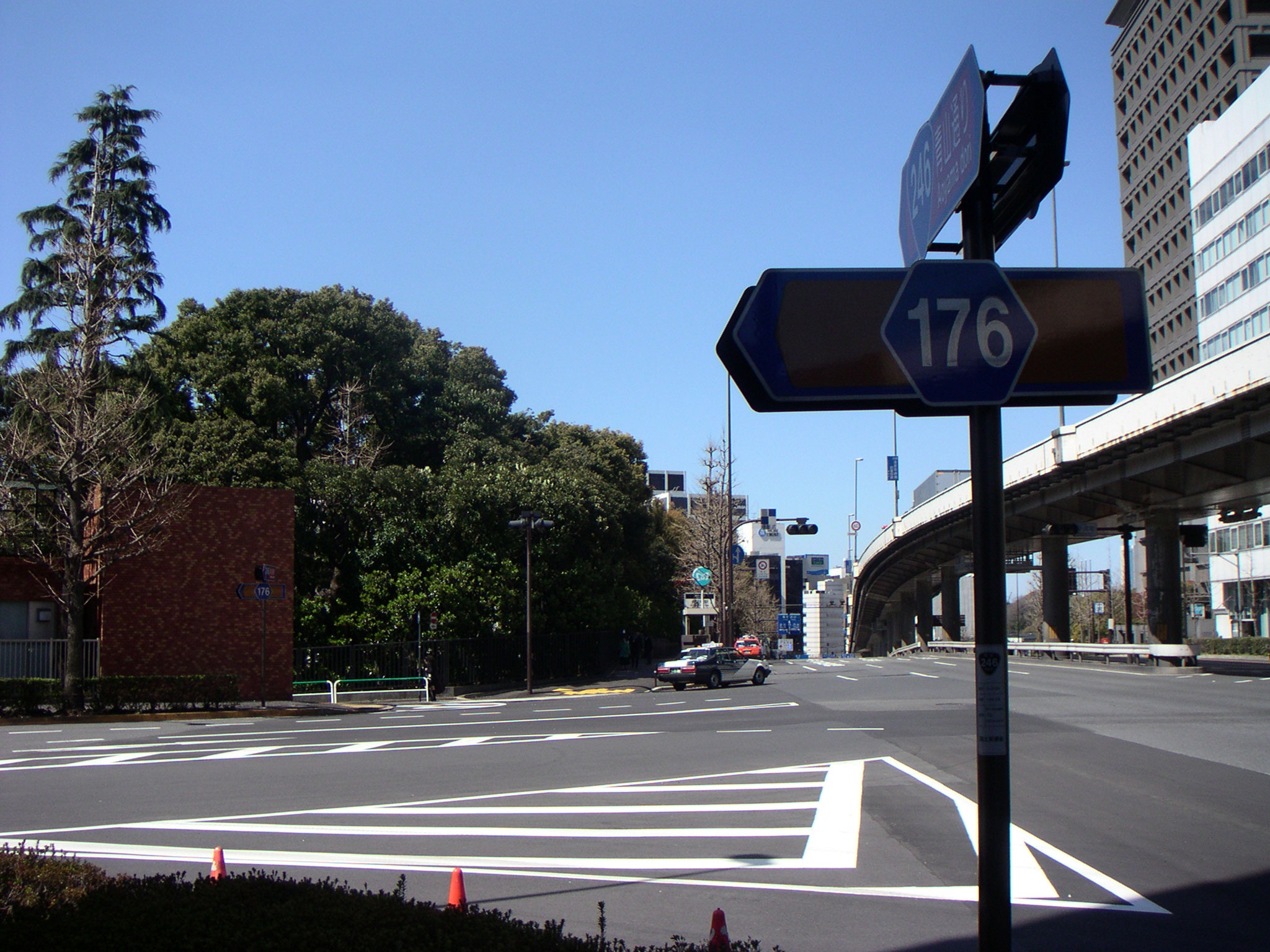 Exceptional Tokyo prefectural road route 176 and Route 246 Japan ja: 特例都道一七六号線、国道246号交点